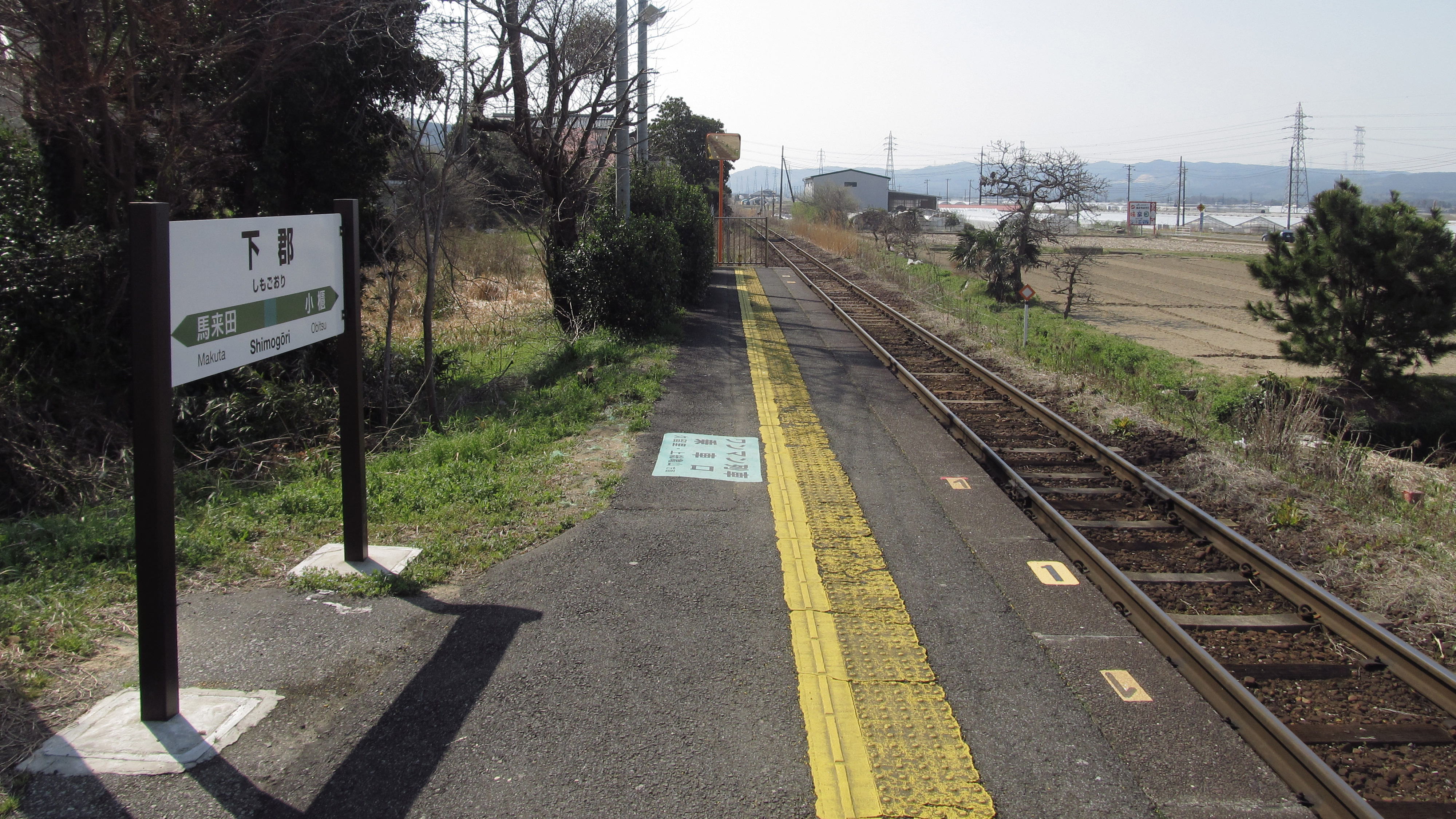 The platform at Shimogōri Station on the Kururi Line in Kimitsu city, Chiba prefecture, Japan